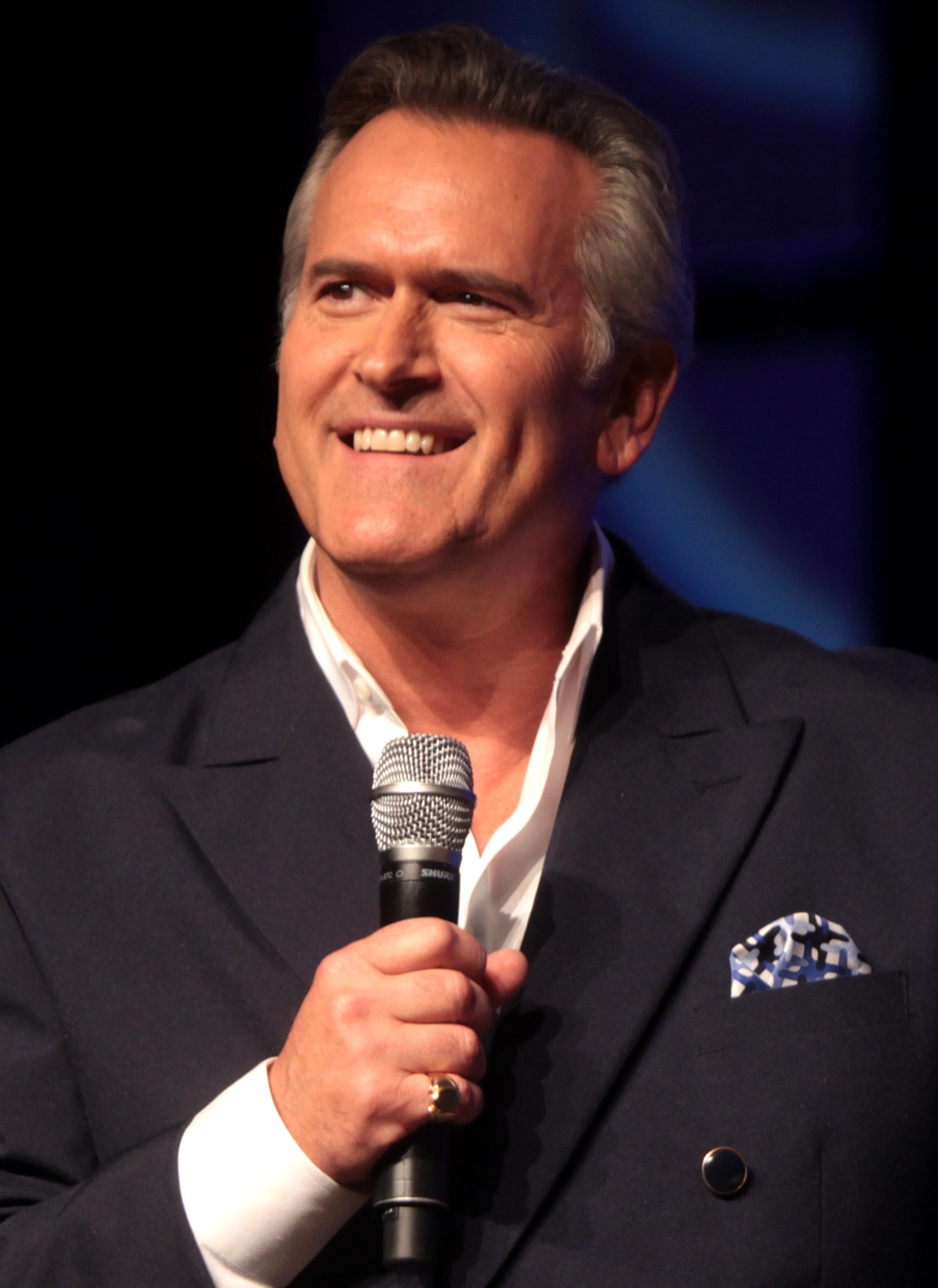 Bruce Campbell speaking at the 2014 Phoenix Comicon at the Phoenix Convention Center in Phoenix, Arizona by Gage Skidmore